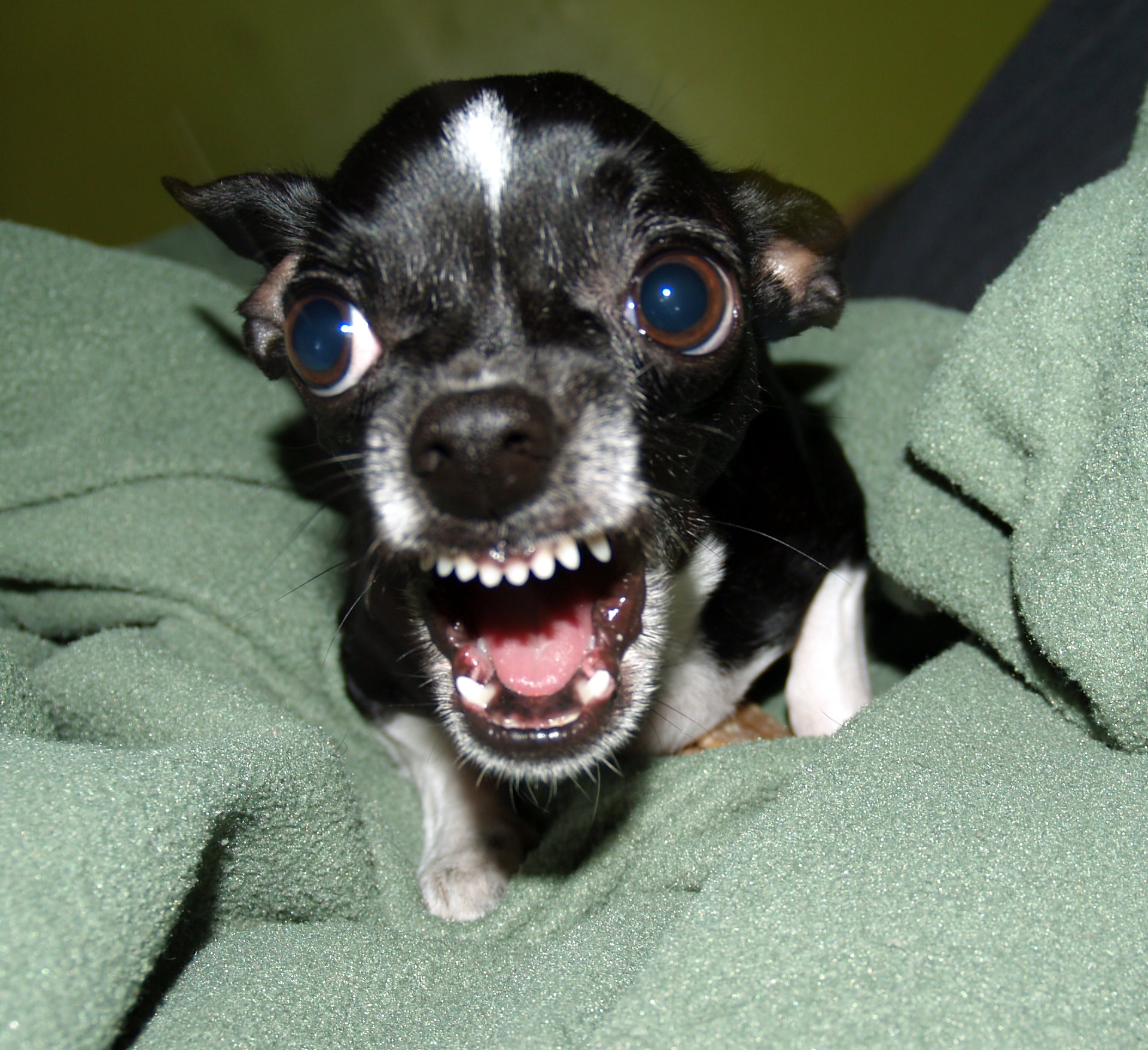 A Chihuahua protecting its bone. Photographer's blog post about this image.